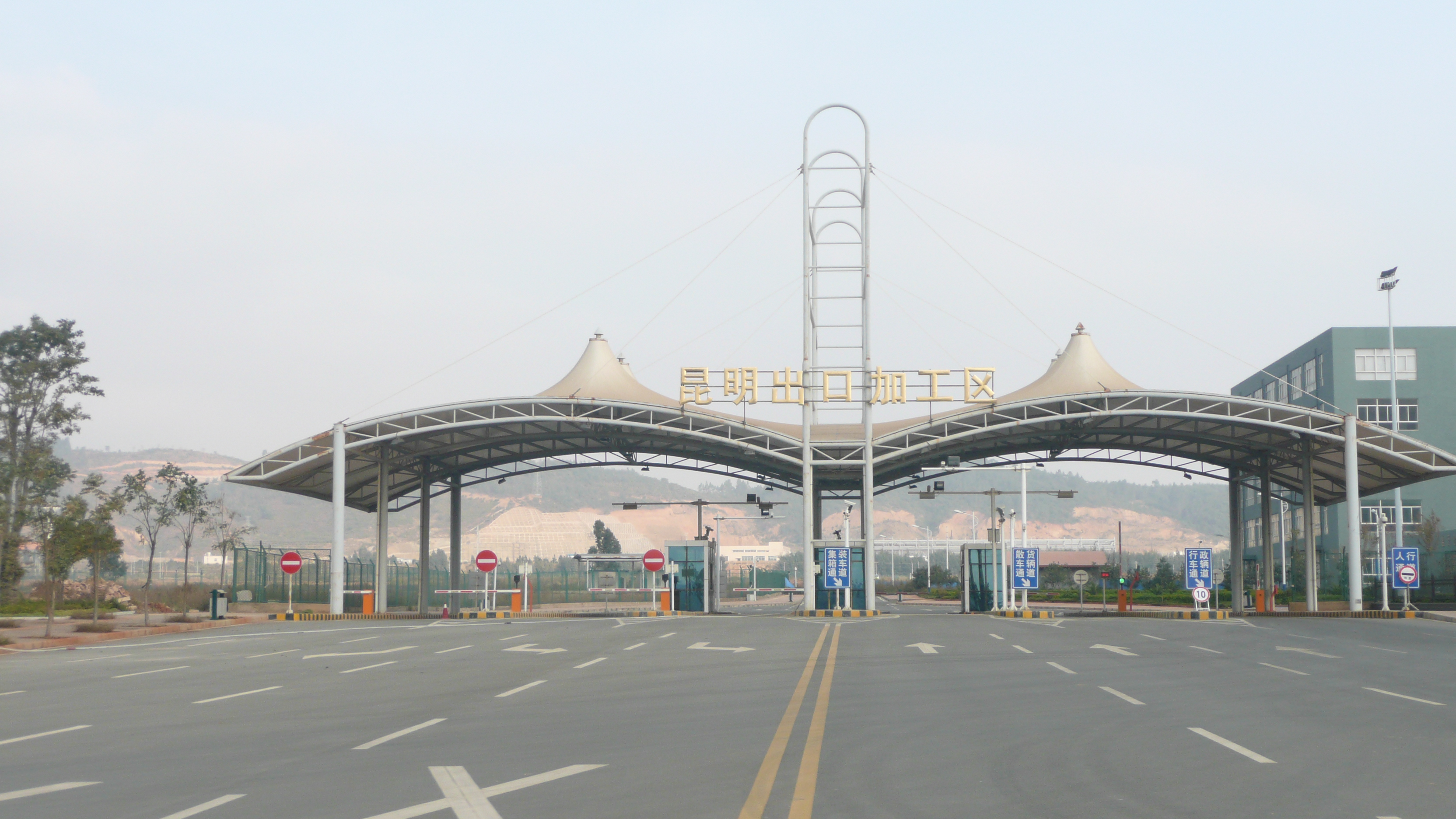 Kunming - Capital of the Chinese province Yunnan - Export Processing Zone of the Economic and Technology Development Zone